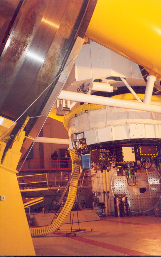 Instruments